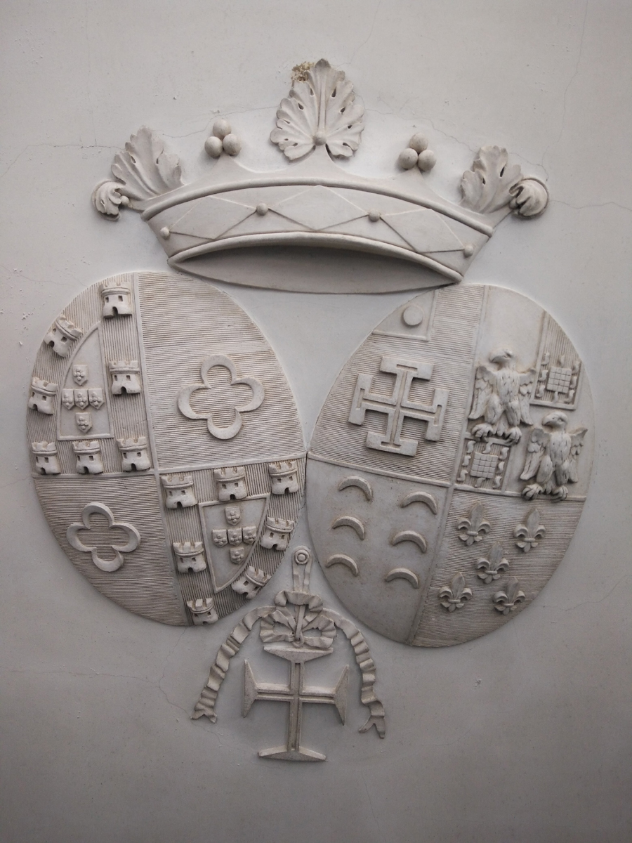 Coat of Arms of the Marquis of Faial and the 2nd Duke of Palmela